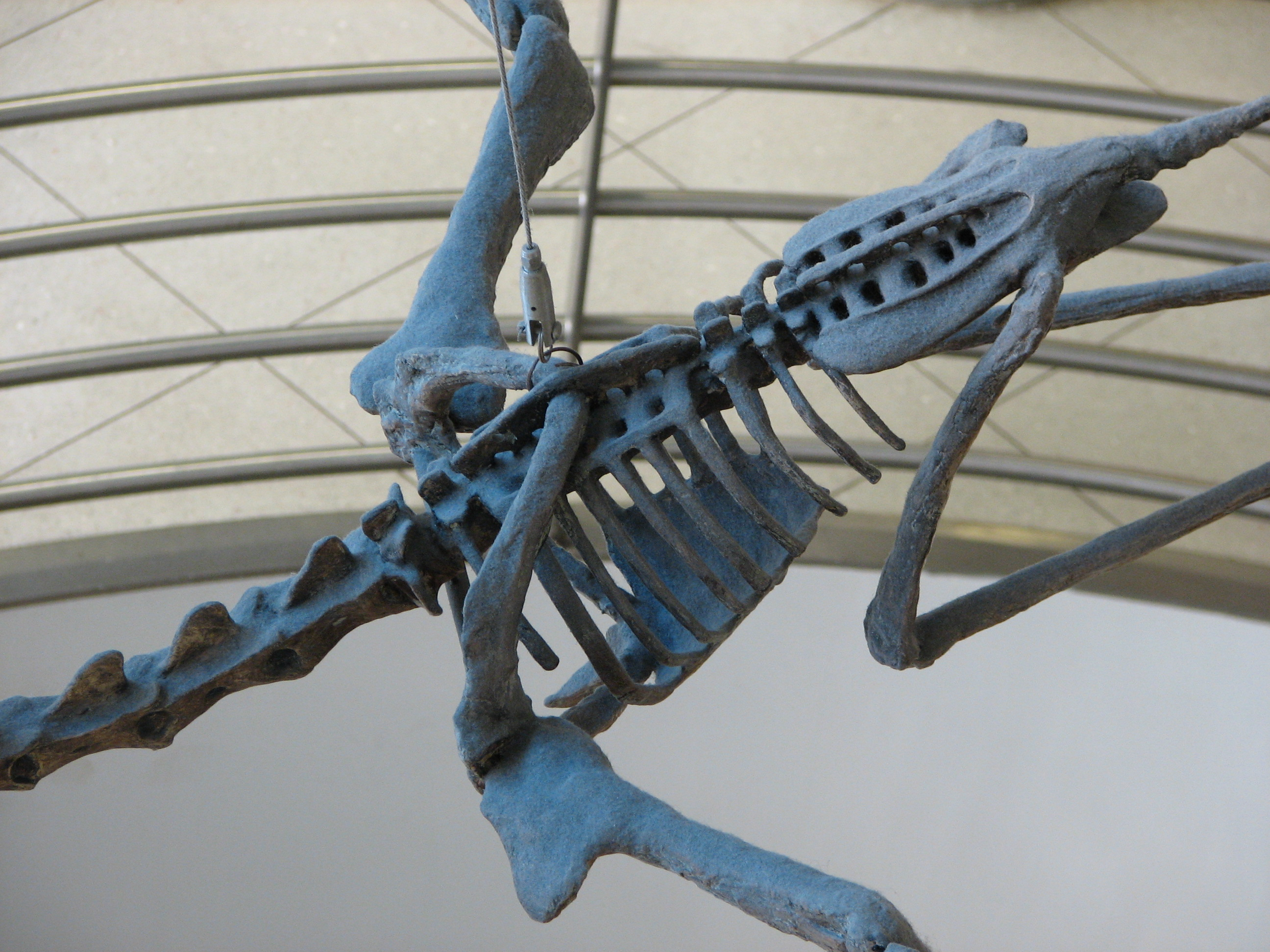 Major part of the axial skeleton of Pteranodon (oblique dorsal view; anterior is to the left) on display at the University of California, Berkeley in VLSB